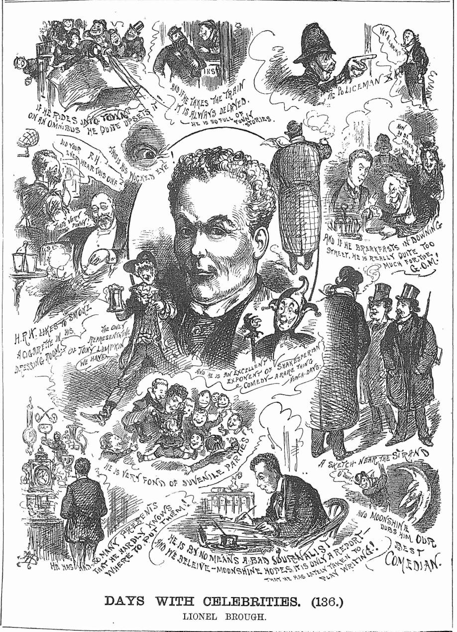 1884 caricatures of Lionel Brough scanned from "Days With Celebrities (136)— Lionel Brough", Moonshine, 26 January 1884, p. 37. public domain.